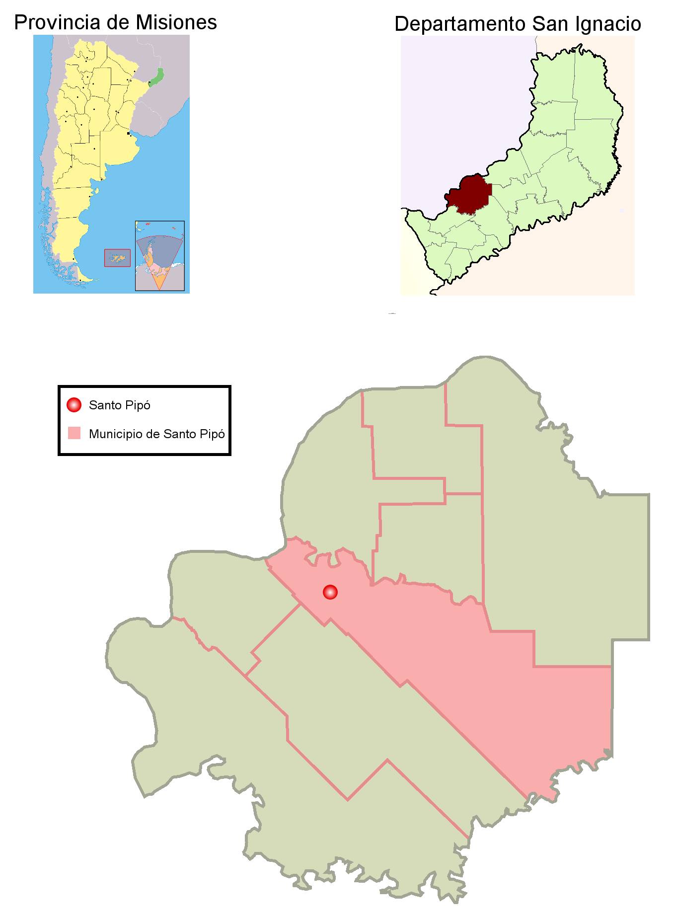 A map showing municipio of Santo Pipó in San Ignacio departament, Misiones province, Argentina. Also shows Santo Pipó town location. Created with GIMP.